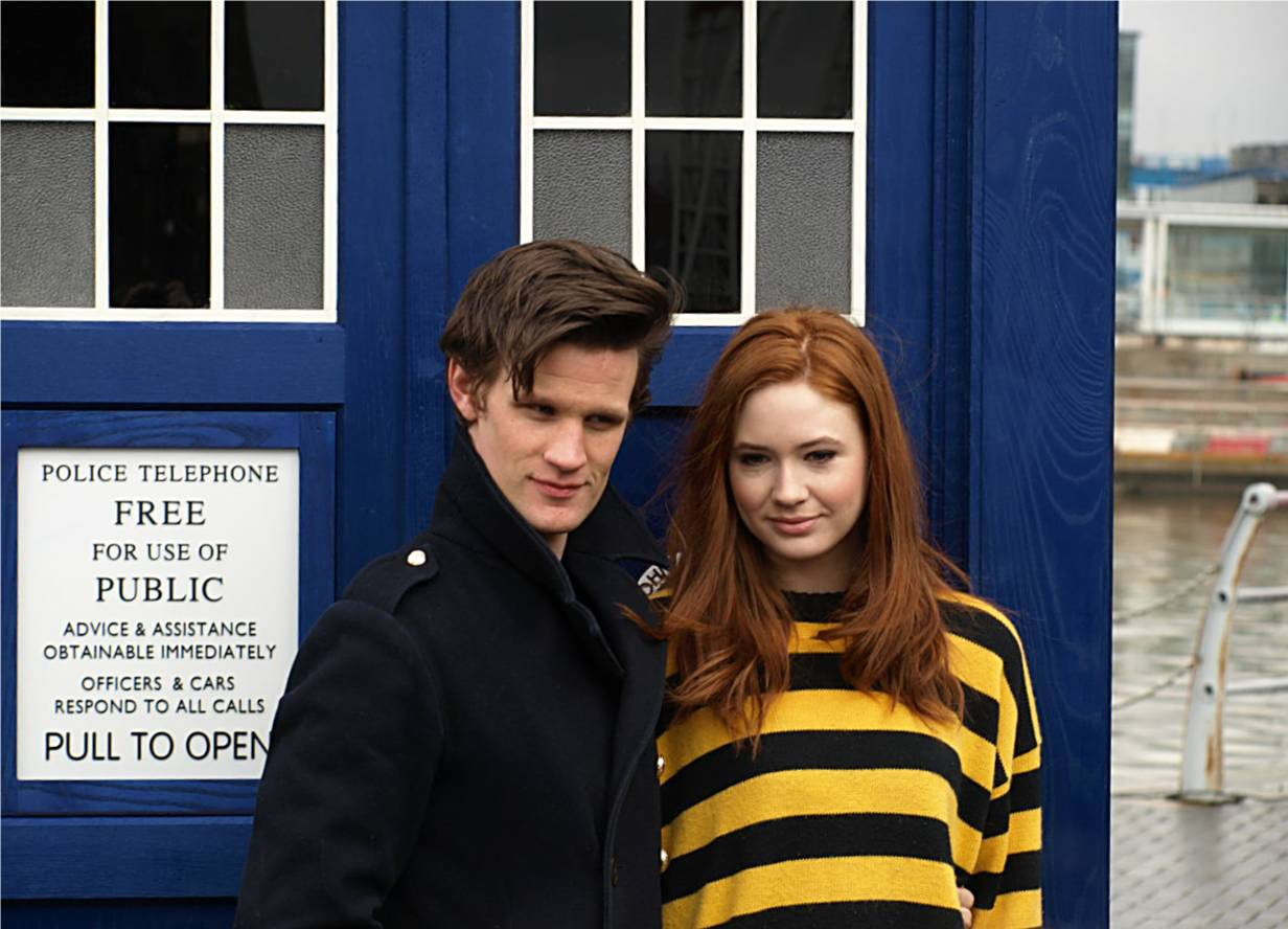 Matt Smith and Karen Gillan in Salford. They portray The Doctor and Amy Pond, and are posing in front of the TARDIS during a damp and cold March morning.